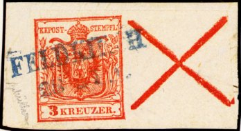 1850 Austro-Hungarian Empire 3kr red postage stamp se-tenant with a St Andrew's Cross label, cancelled in blue at FELDKIRCH, Vorarlberg